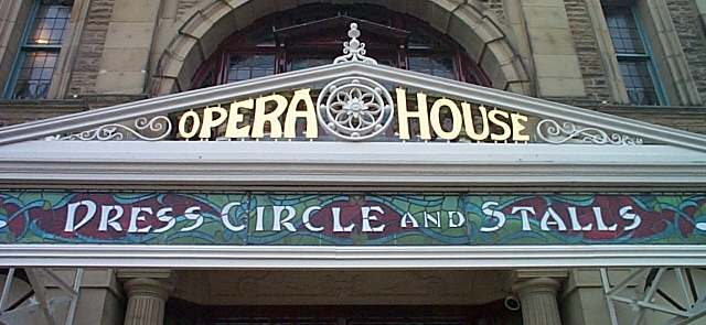 The frontage sign for the Buxton Opera House, Derbyshire. Designed by Matcham and opened in 1903.